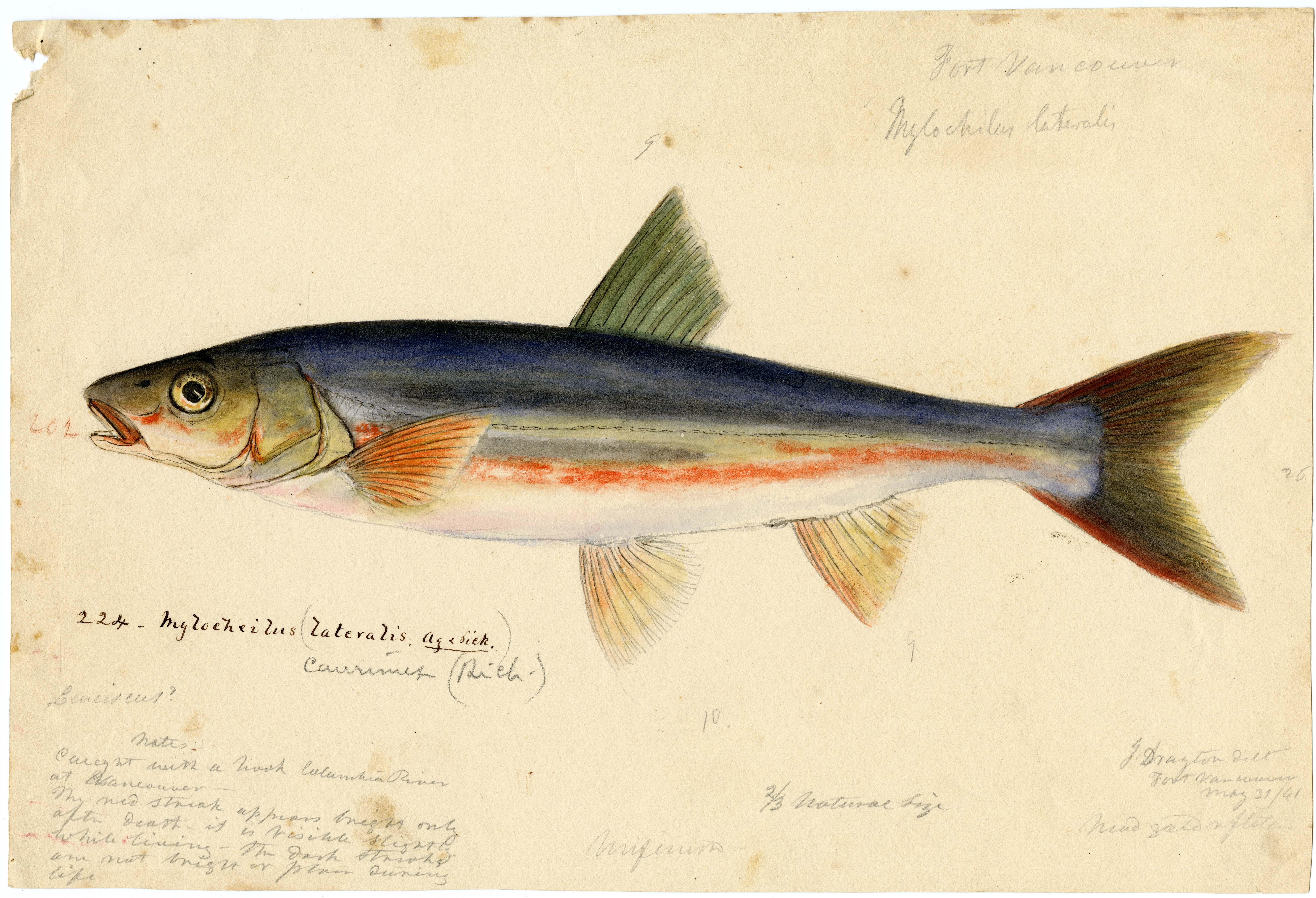 Mylocheilus caurinus, Synonym: Mylocheilus lateralis Local number: SIA2011-1233 Summary: RU 007186, Box 5, Folder 14; Drawing of Cyprinoid observed near Fort Vancouver in 1841, drawn by Joseph Drayton for the United States Exploring Expedition, 1838-1842. Dates: circa 1838-1842 Repository: Smithsonian Institution Archives Related blog post: When Are Drawings Field Notes? View more collections from the Smithsonian Institution. .